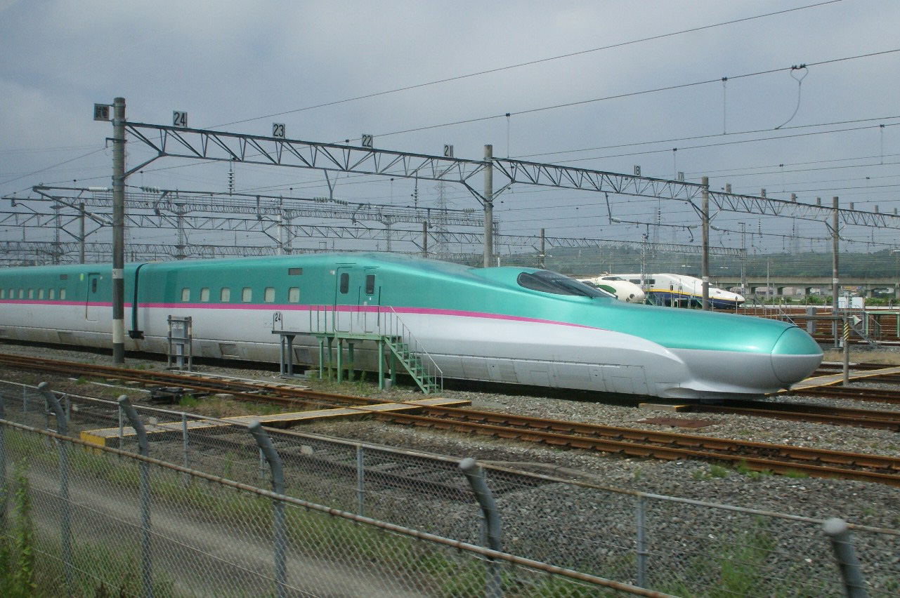 JR East E5 series shinkansen pre-series set S11 at Shinkansen General Rolling Stock Center